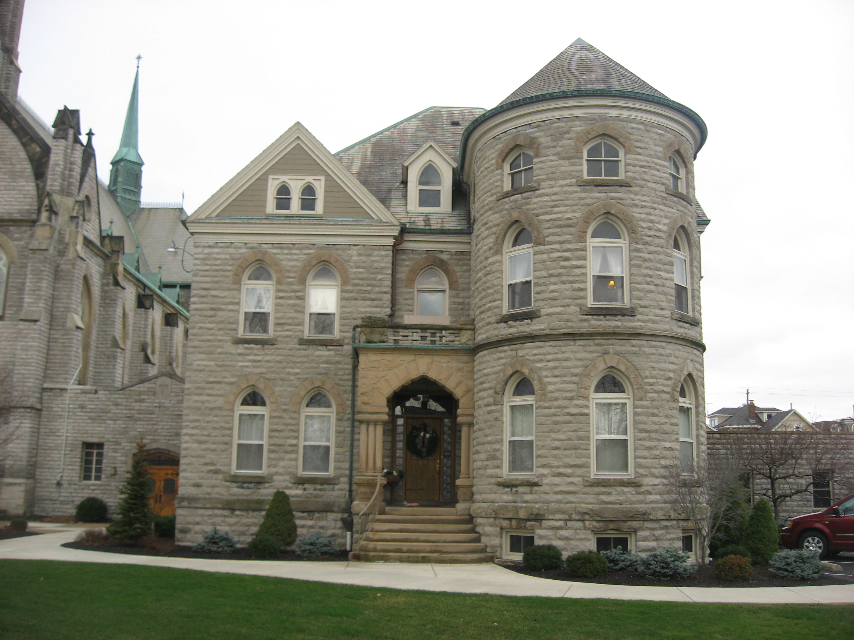 Front of the rectory at St. Mary's Catholic Church, located at 429 Central Avenue in Sandusky, Ohio, United States. Built in 1893, the rectory is listed on the National Register of Historic Places.